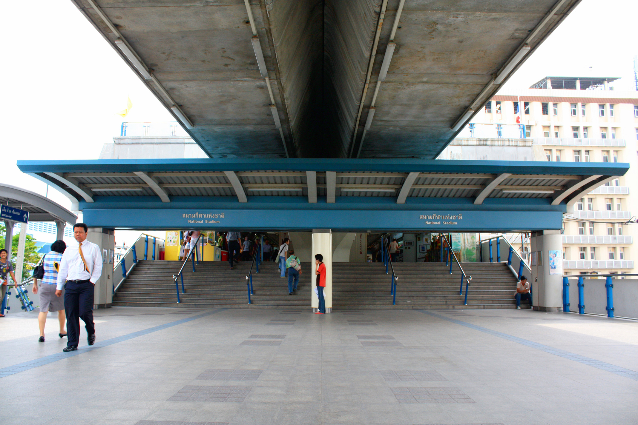 BTS National Stadium Station, Bangkok, Thailand.